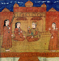 Suonatori Luri VII secolo/Luri Musicians VII century